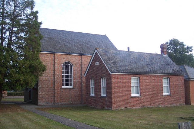 Biddenden Ebenezer Chapel, Bound's Cross. On A274 Headcorn Road. A Strict Communion Particular Baptist Chapel. Built in 1879. Has a 1907 extension on the side. Seen from the churchyard.